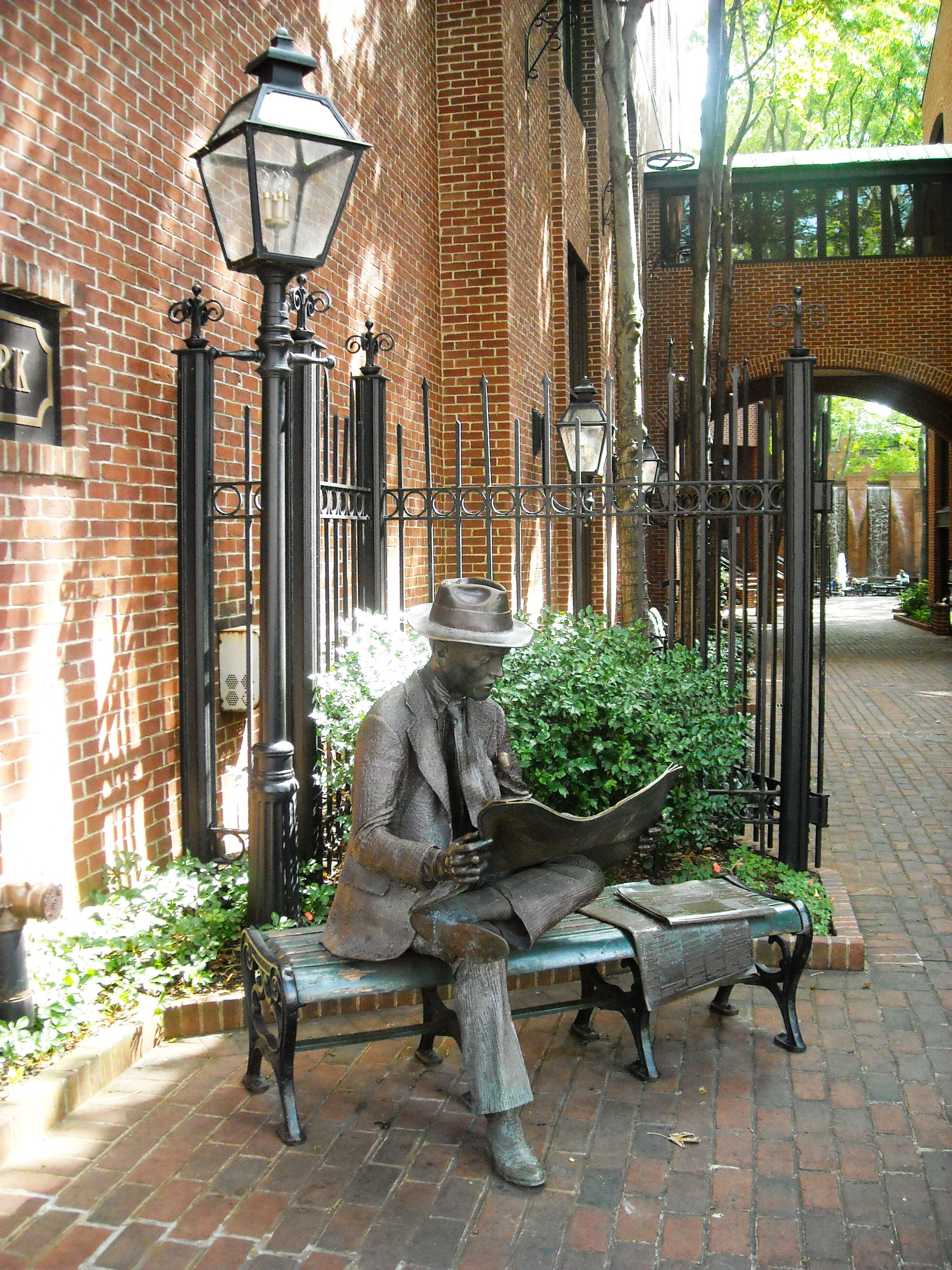 20 West King Street, Lancaster, PA 17602 At the entrance to Steinman Park sits a bronze sculpture of man reading a newspaper. Artist: J. Seward Johnson Jr.